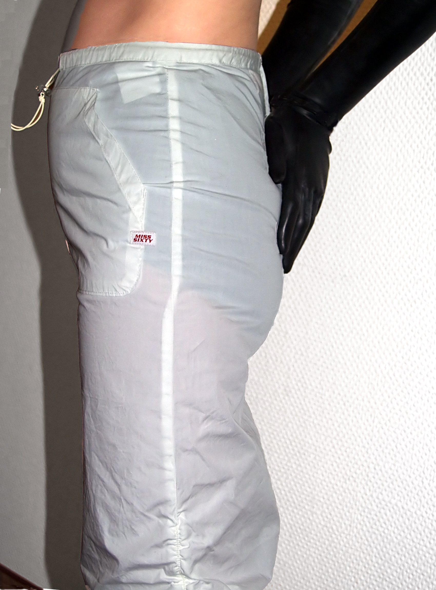 White skirt, brand "Miss Sixty"